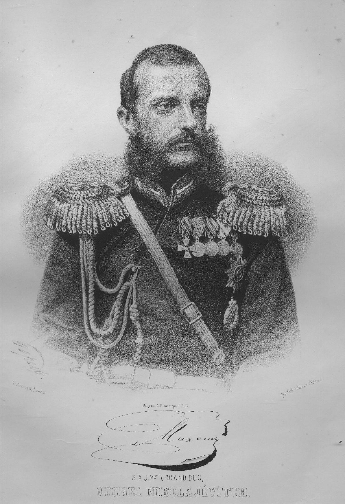 Grand Duke Michael Nikolaevich of Russia